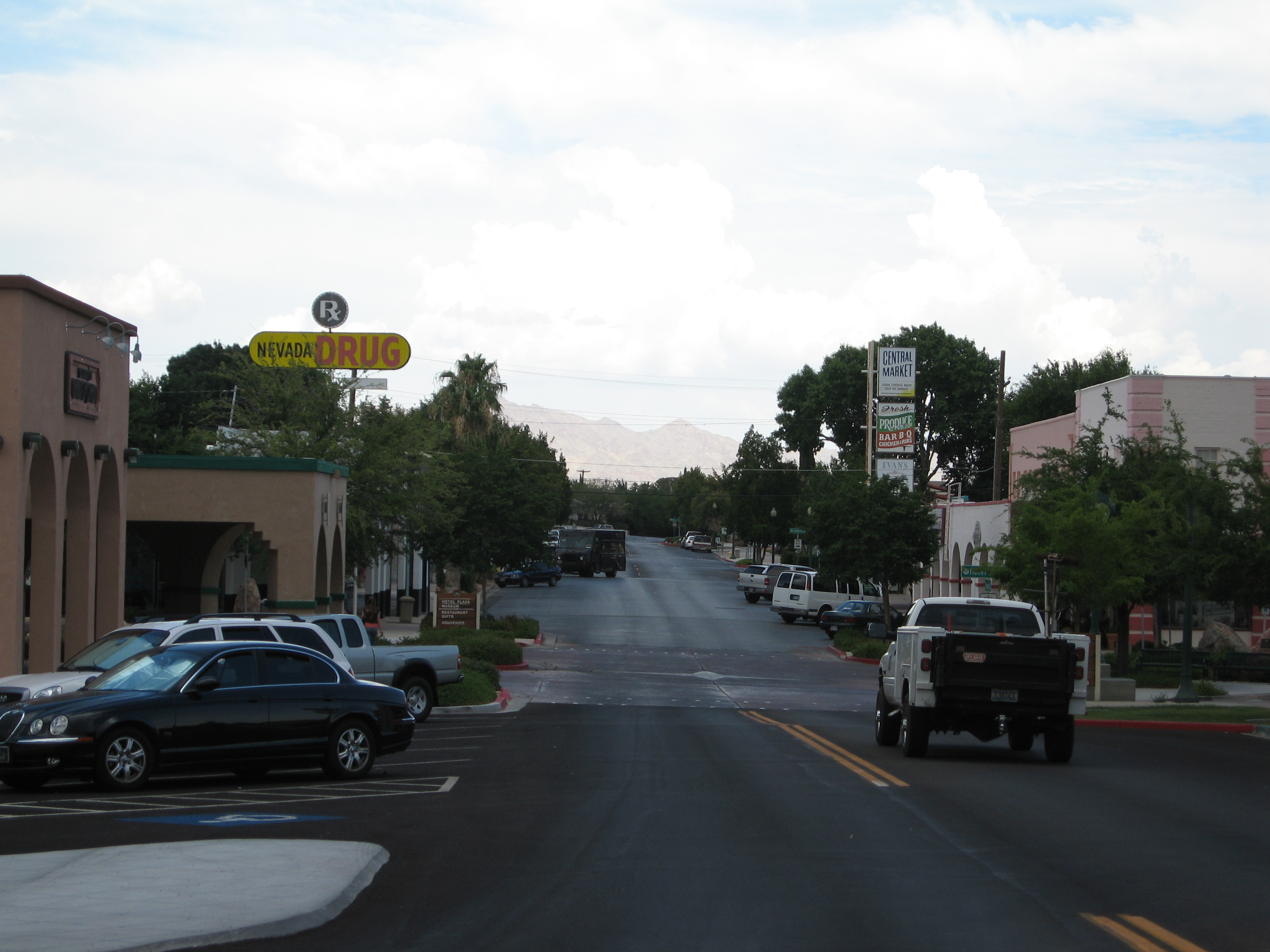 Arizona St., Downtown Boulder City, Nevada, USA. The Historic Boulder Theatre, 1225 Arizona St. ist on the right.